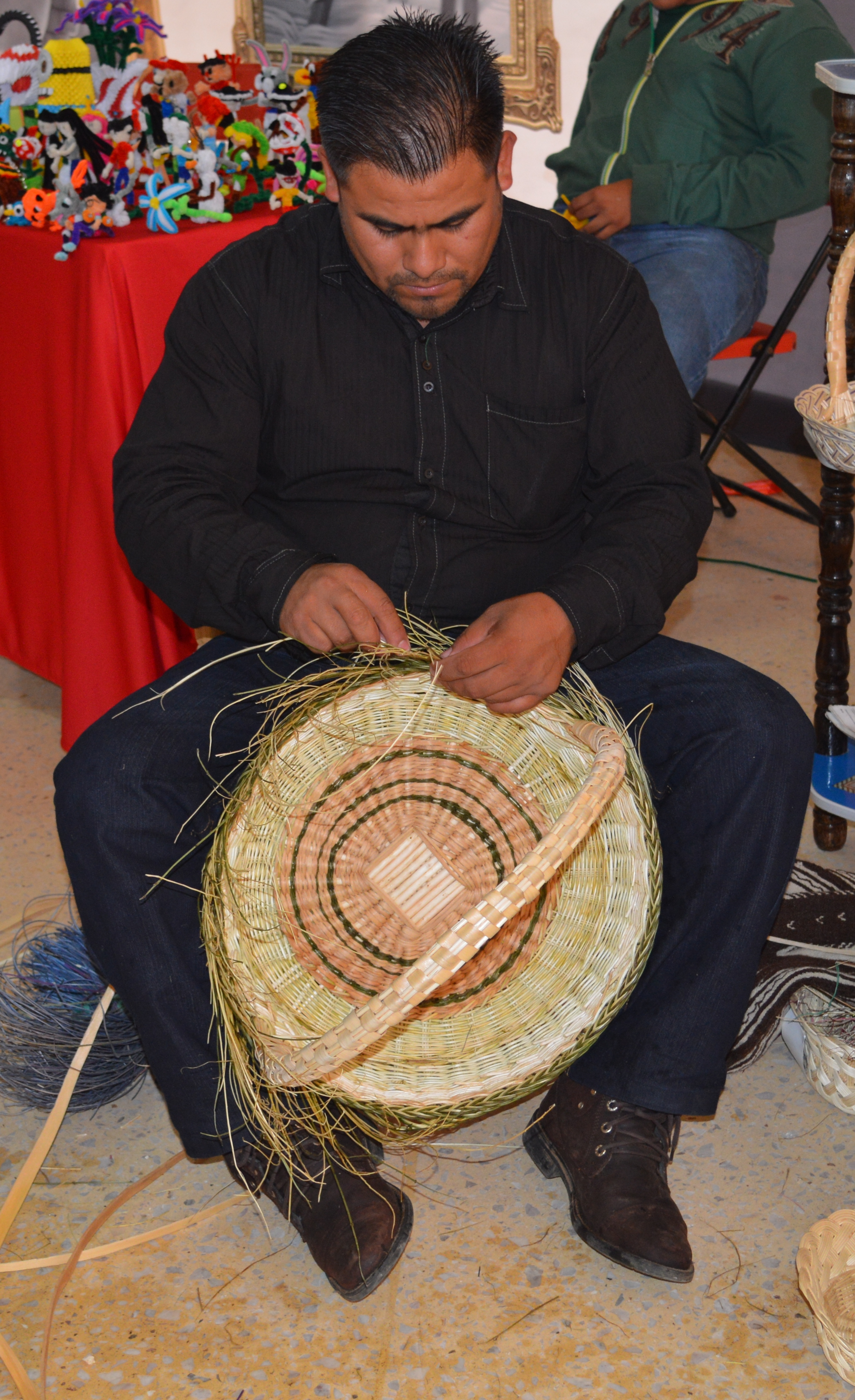 Javier Hernandez Flores, son of Apolinar Hernandez Balcazar, at the Feria de Rebozos in Tenancingo, Mexico State, Mexico